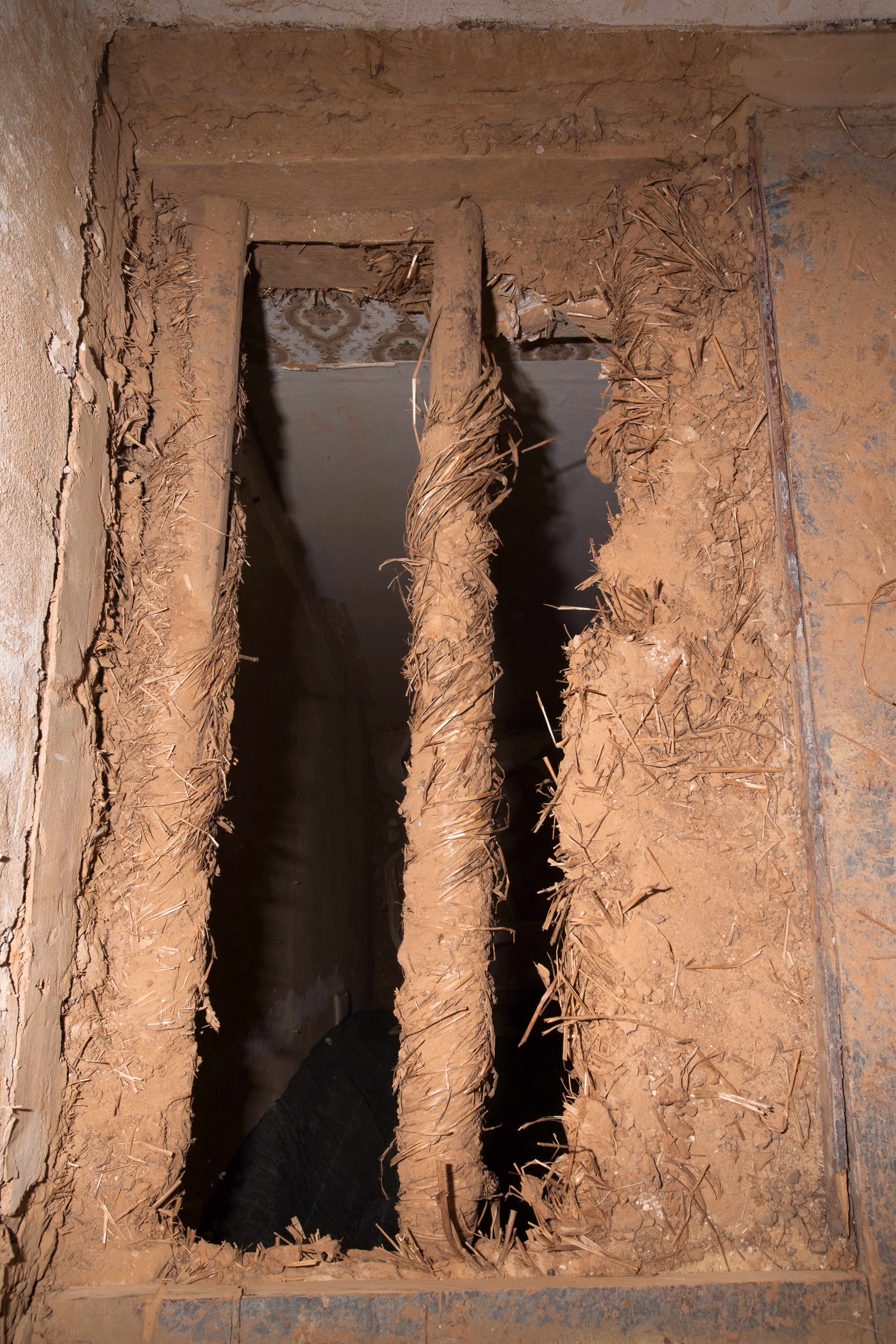 Cob construction from 1880 with stakes coiled up with straw. Loam partially detached